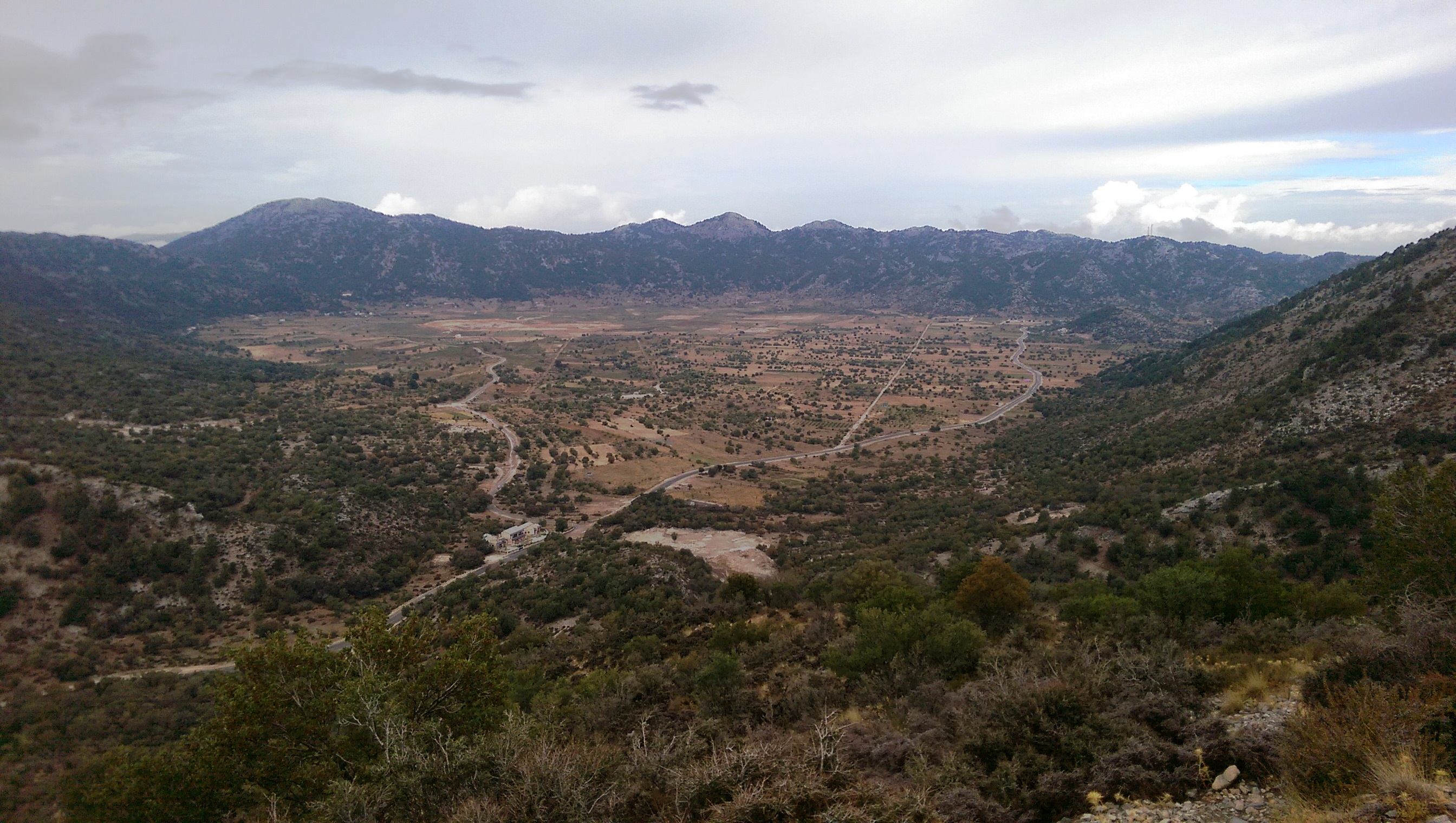 Omalos, Crete, Greece